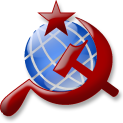 Logo of the